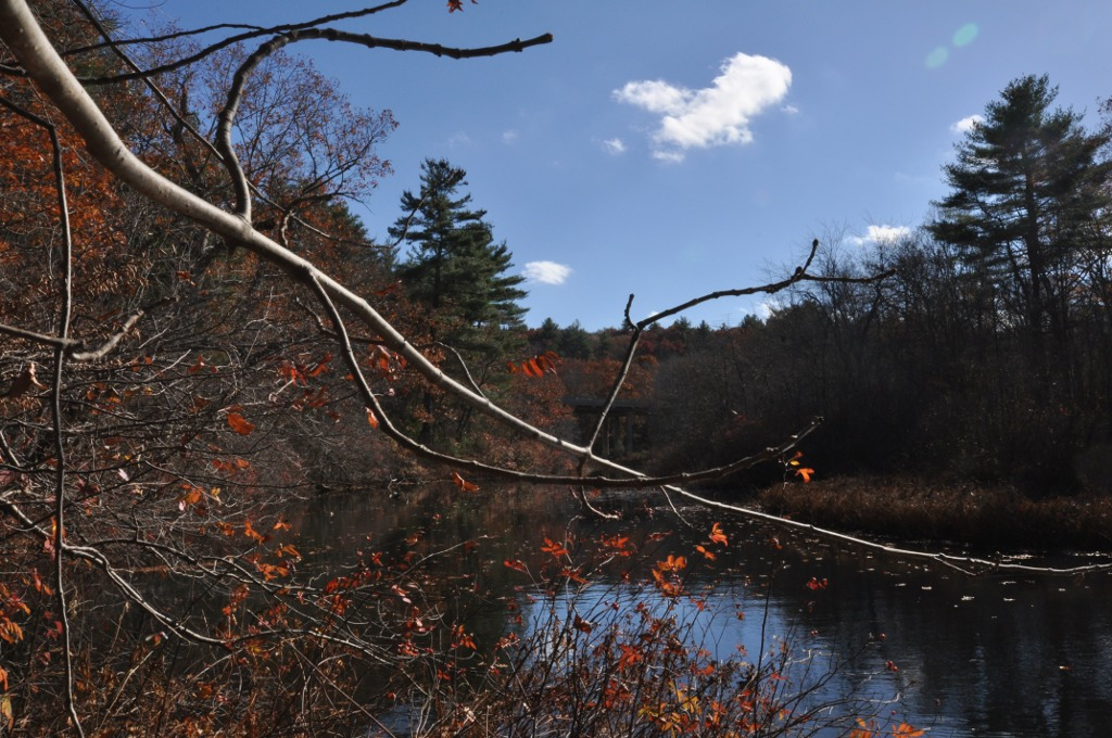 The Woonasquatucket River near the Washington Highway (bridge visible in background), Smithfield Rhode Island. There is a listed archeological site in this area.